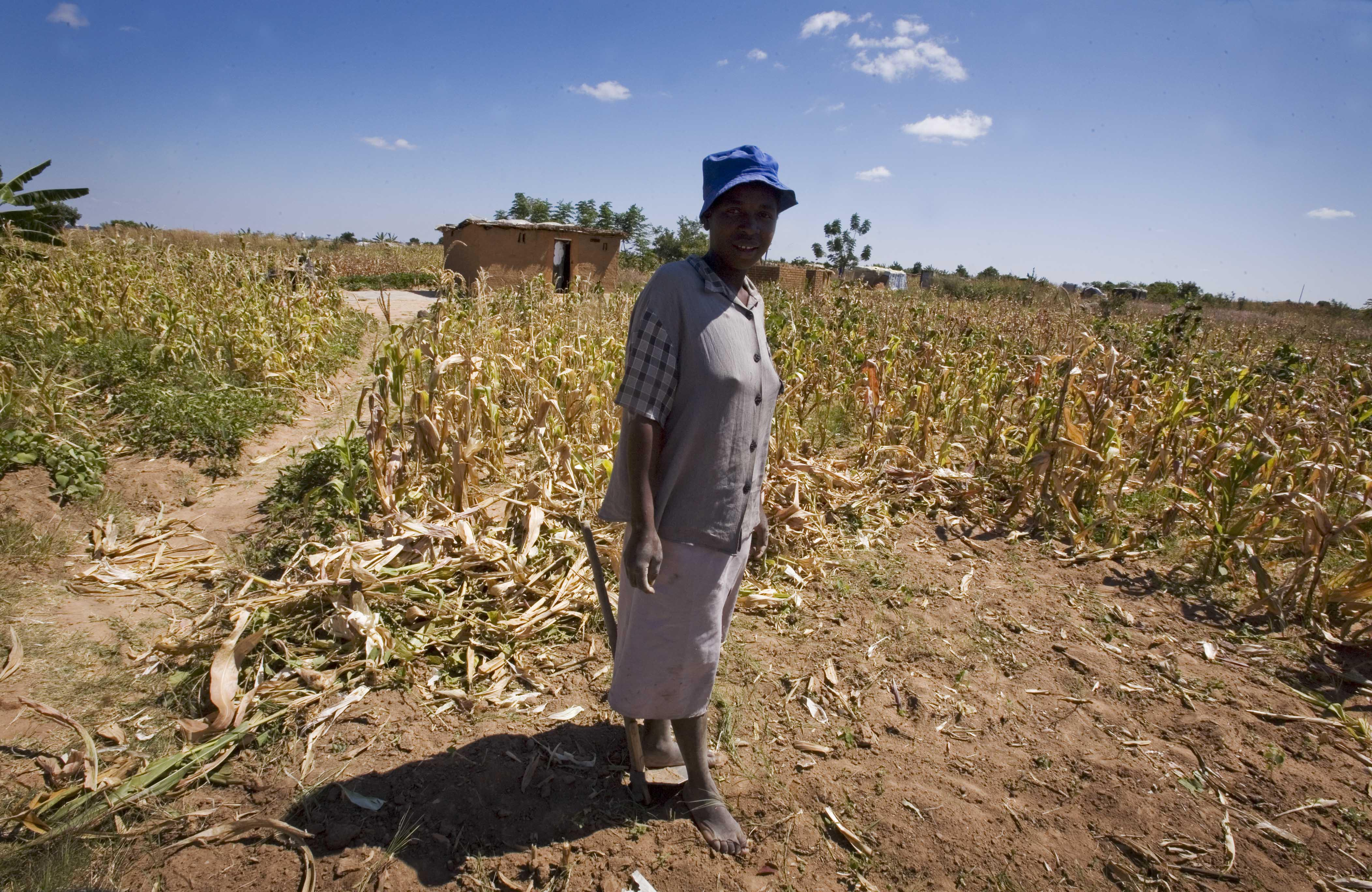 A woman stands in her crop of maize, that grows around her home in Epworth, in Harare, Zimbabwe in April 2009. Australia is using its expertise and experience to help improve food security in African countries.